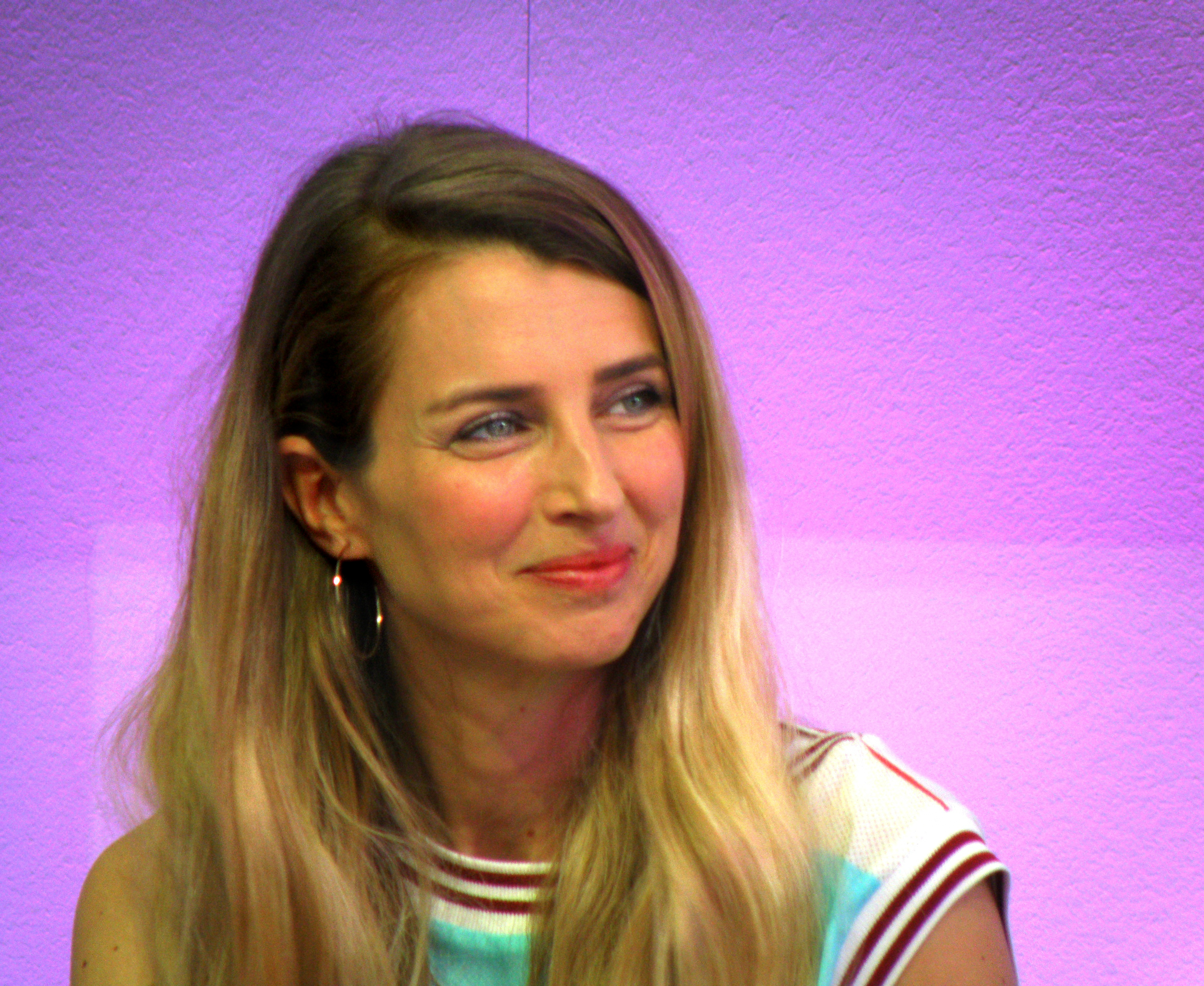 Carolina Di Domenico radio-TV presenter at the Wired Next Festival, Milano, May 2018.